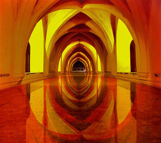 Photograph of the Alcazar baths. Seville Spain, 2002 by Dan Freund, Architect.